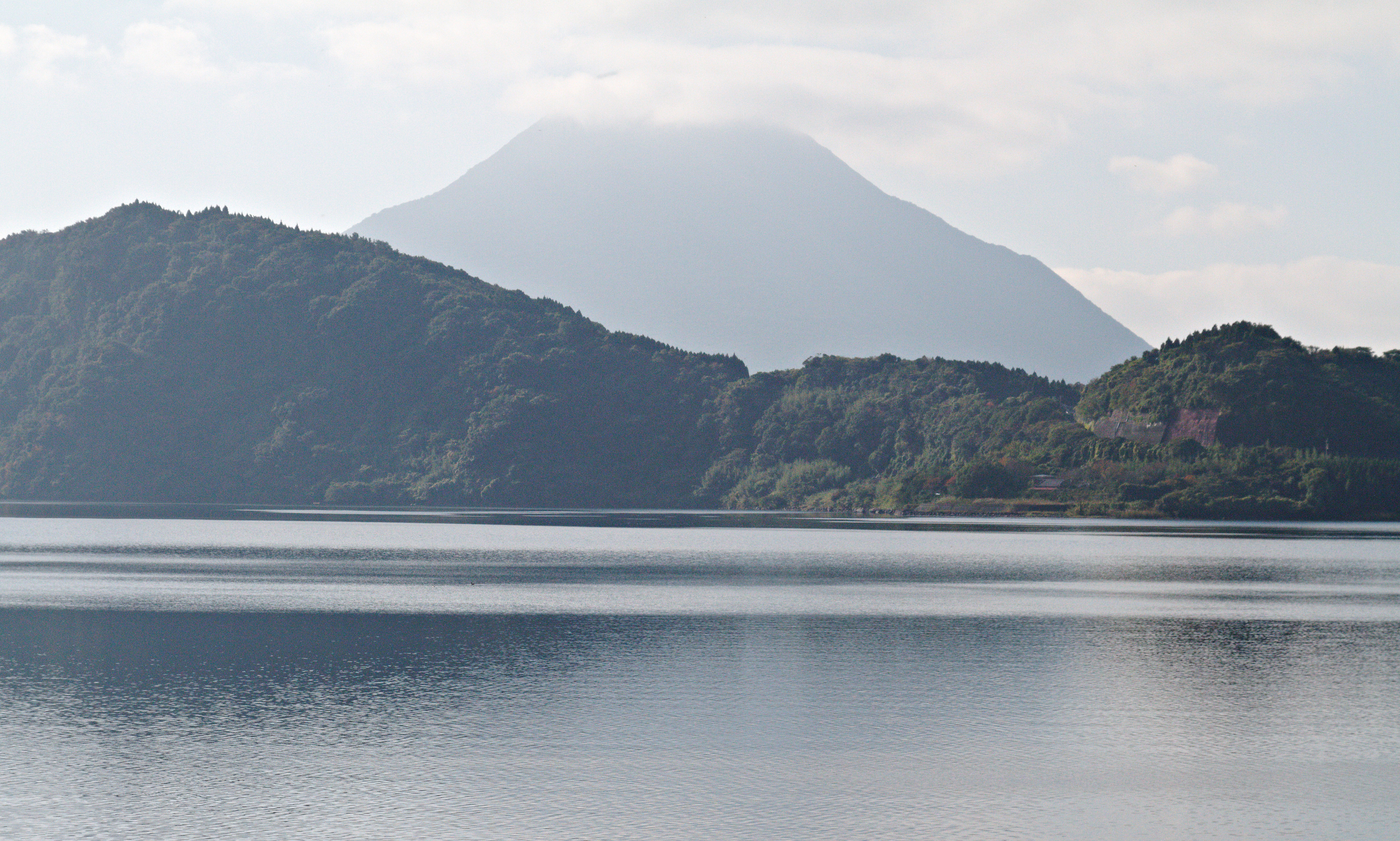 Mount Kaimon and Lake Ikeda.